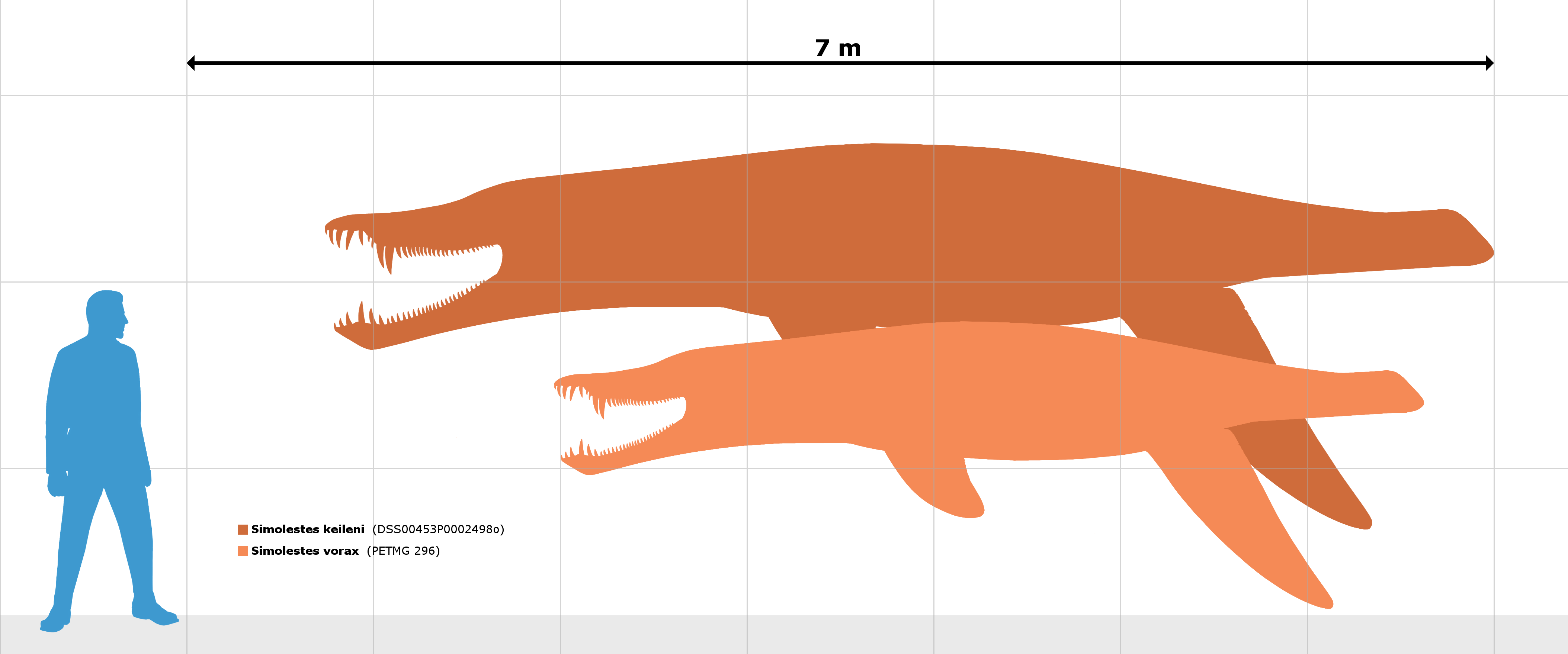 Size of the largest accurately scaleable specimen, PETMG 296, a skull. Proportions based on Liopleurodon, and measurements provided in original description (Andrews 1909), and skull based on reconstruction by Noe (2001)